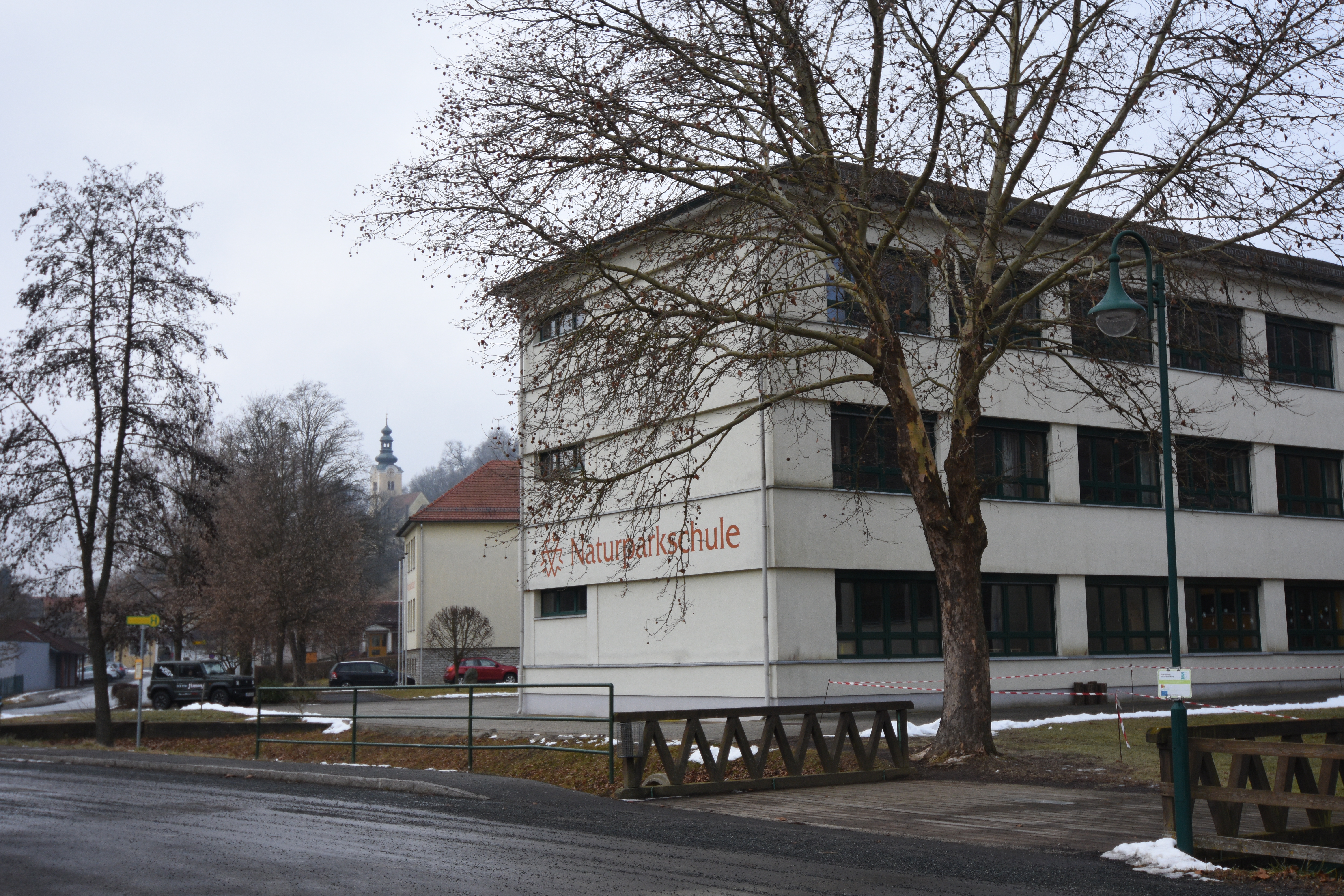 Neuhaus am Klausenbach